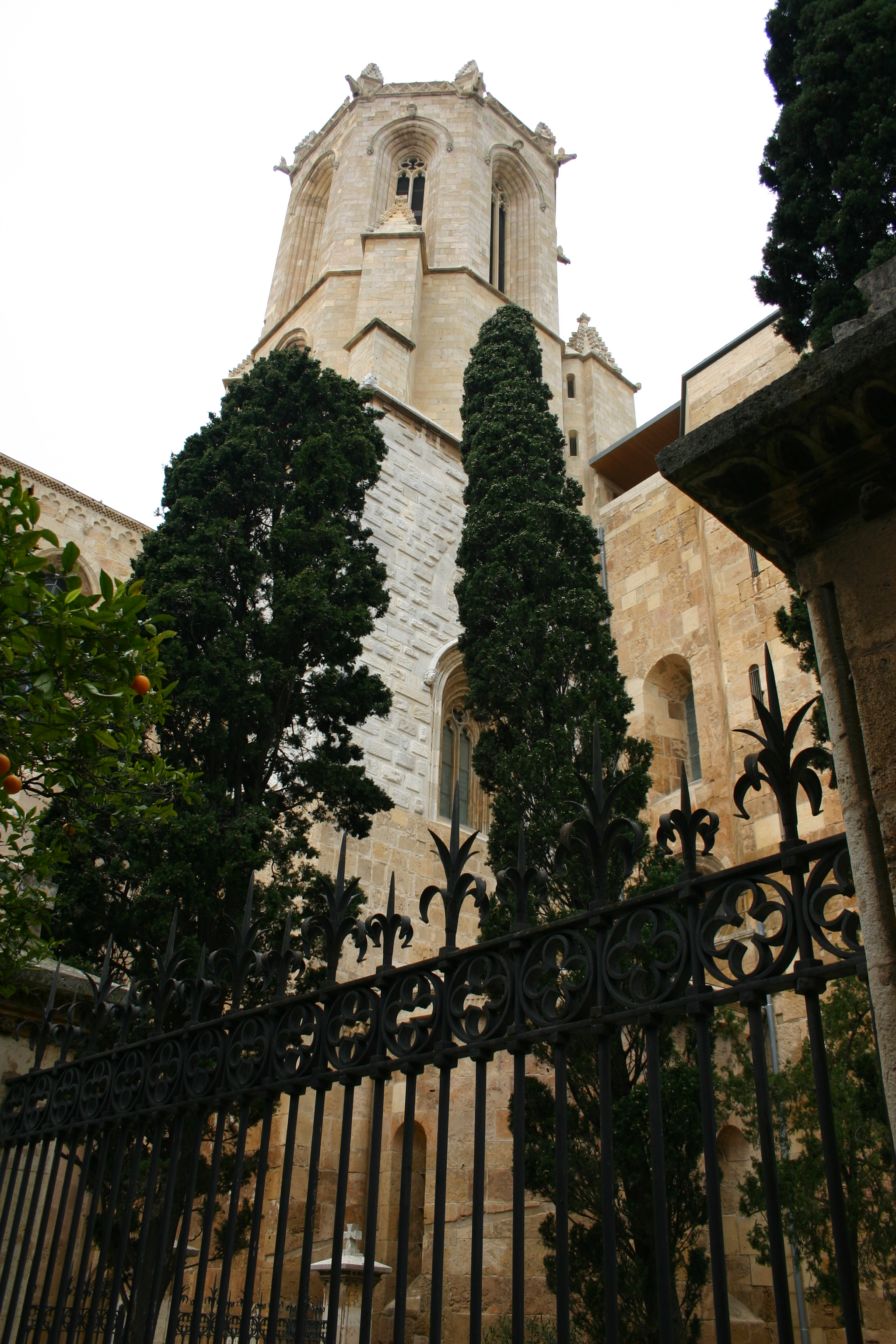 Cathedral of Tarragona, Catalonia (Spain).